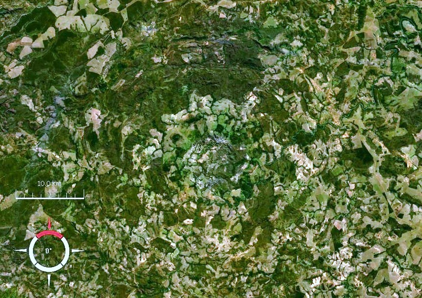 Landsat image of the Araguainha crater, Brazil.